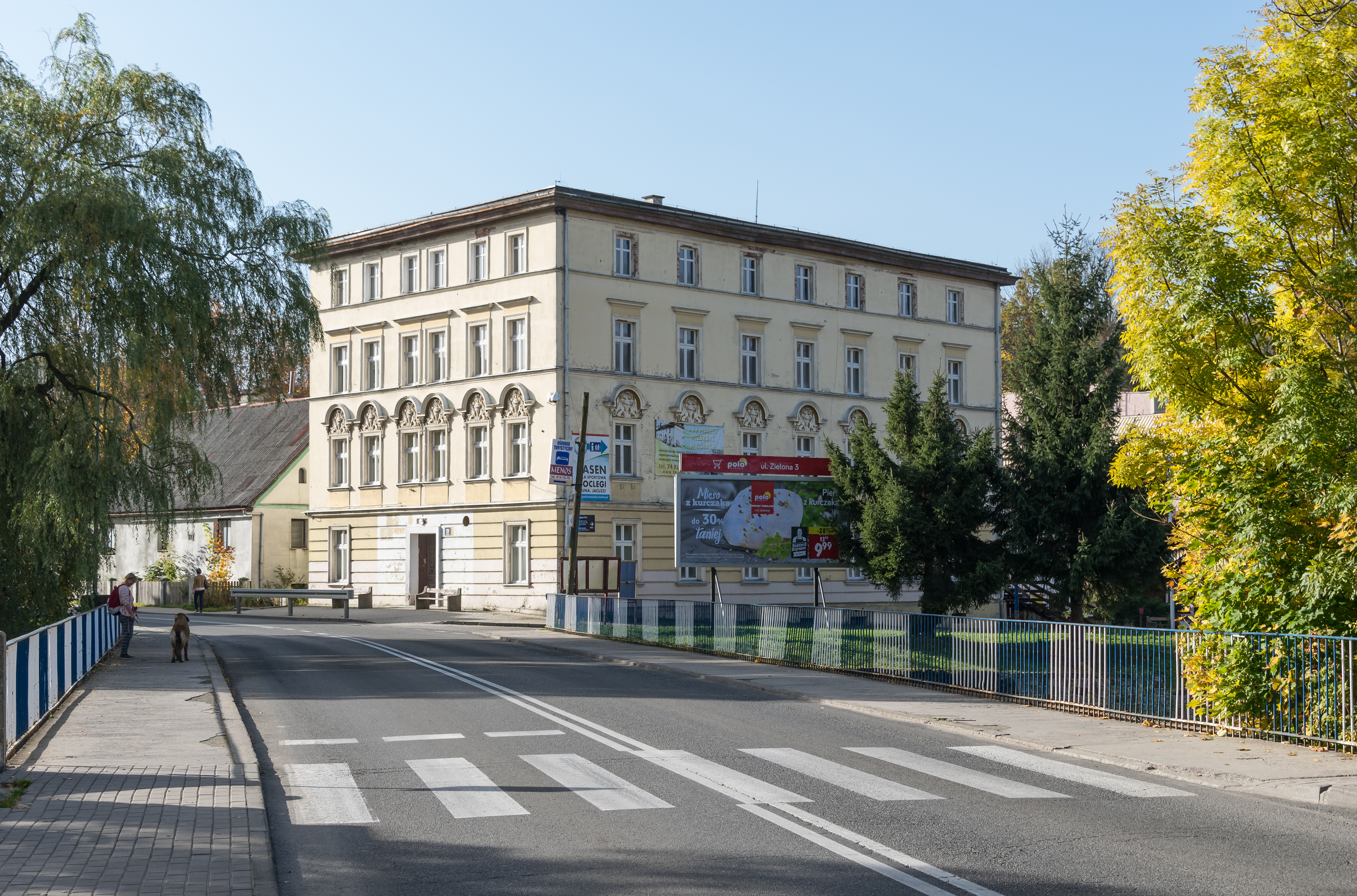 20 Kościuszki Street in Stronie Śląskie